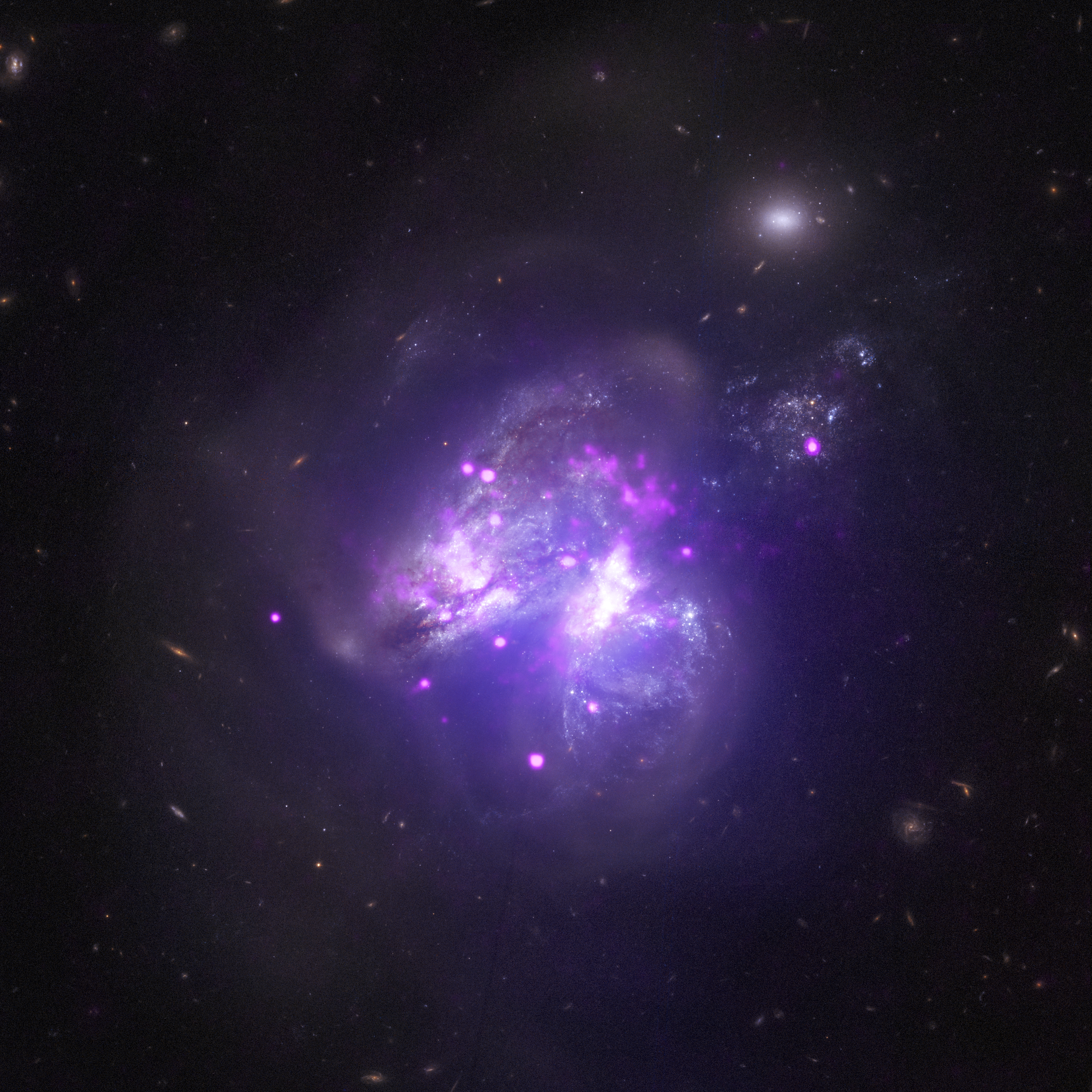 Chandra data has revealed 25 bright point-like X-ray sources in Arp 299, 14 of which are categorized as "ULXs".